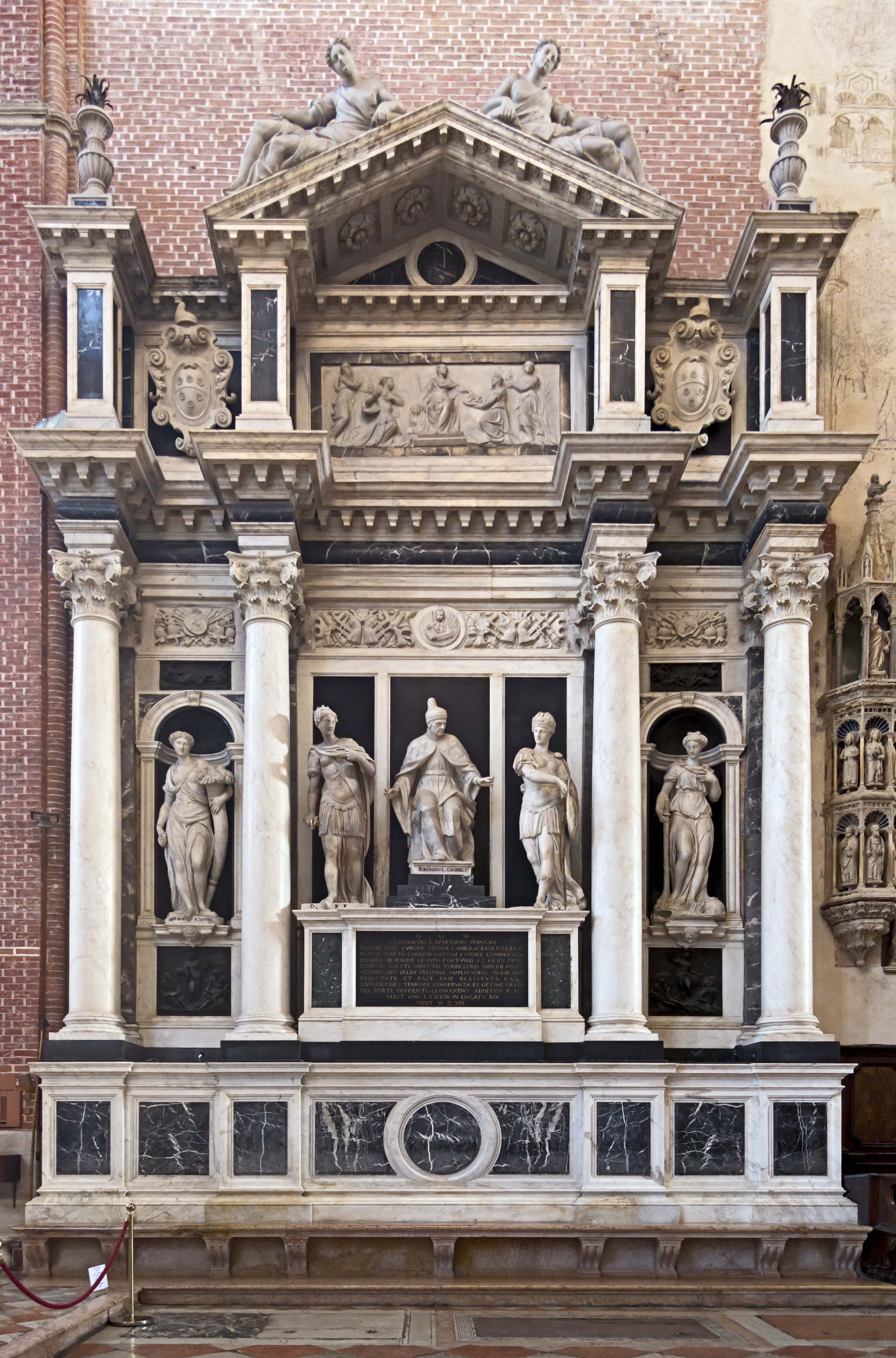 Choir of Santi Giovanni e Paolo in Venice. Tomb of the Doge Leonardo Loredan by Girolamo Grapiglia. Statue of the doge by Girolamo Campagna